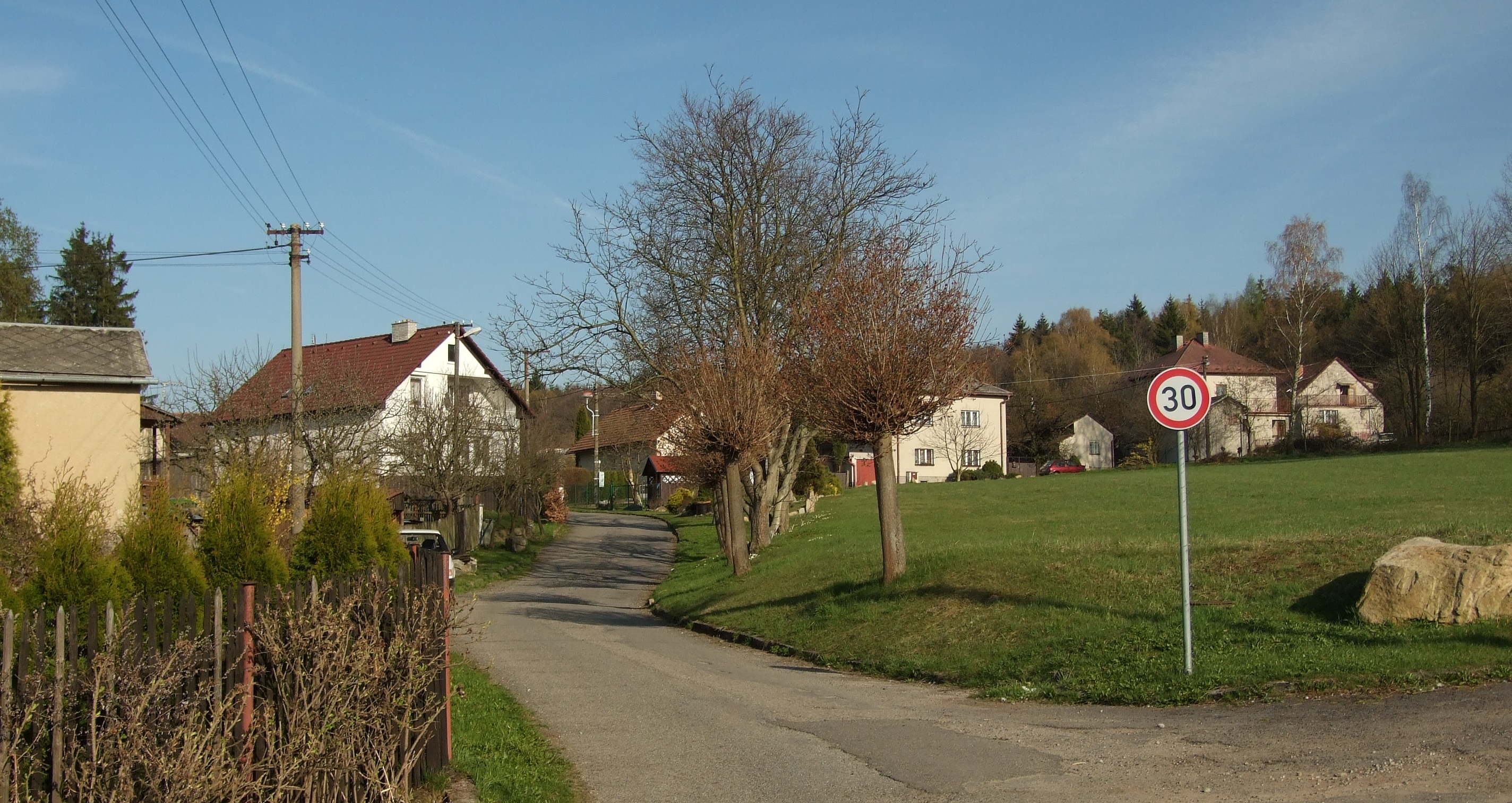 A road in Radostovice. This village is located near the town of Světlá nad Sázavou, Vysočina Region, CZ